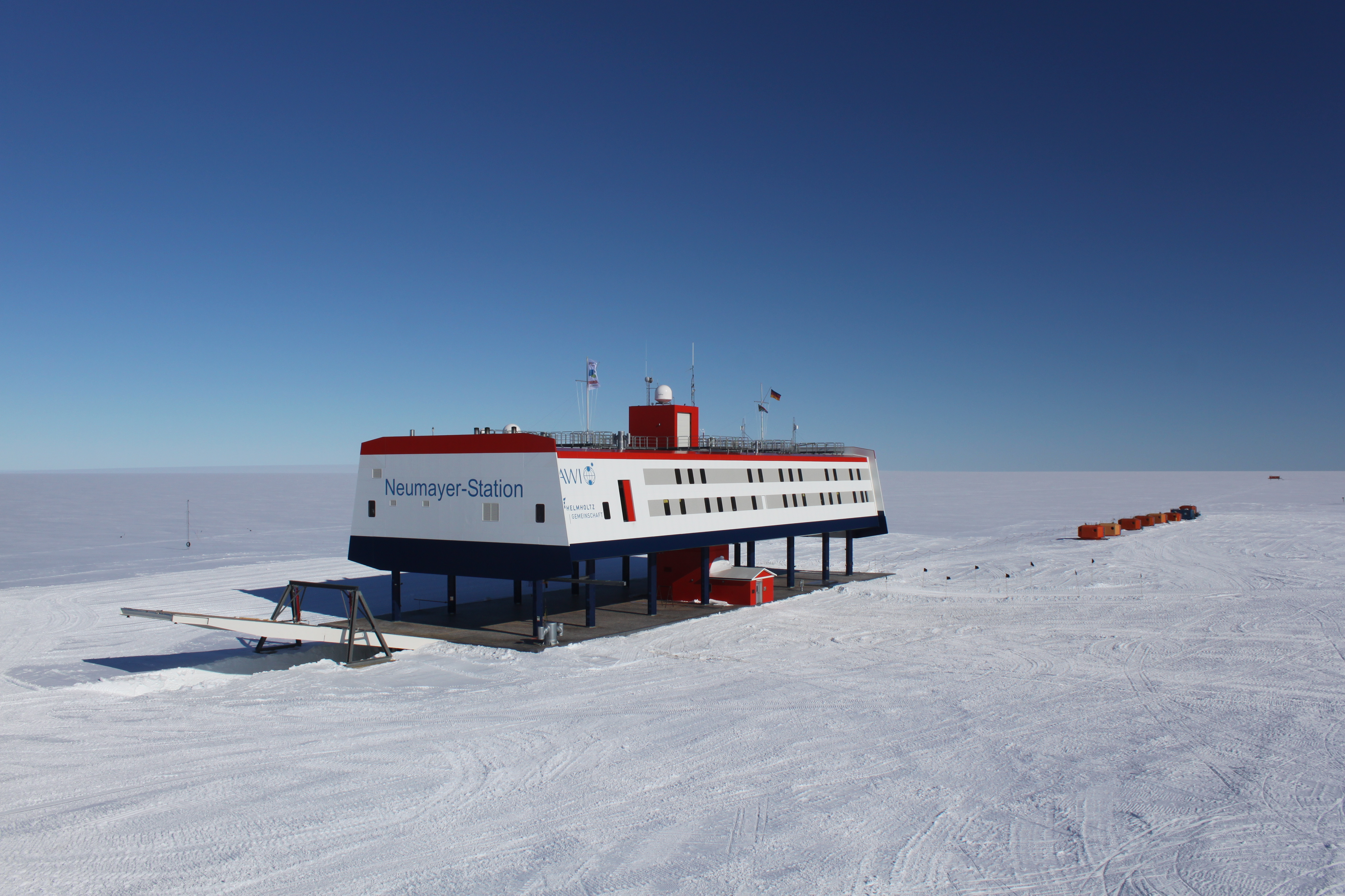 German Antarctic research base Neumayer Station III, located in Dronning Maud Land, Antarctica, operated by the Alfred Wegener Institute Helmholtz Centre for Polar and Marine Research (AWI)